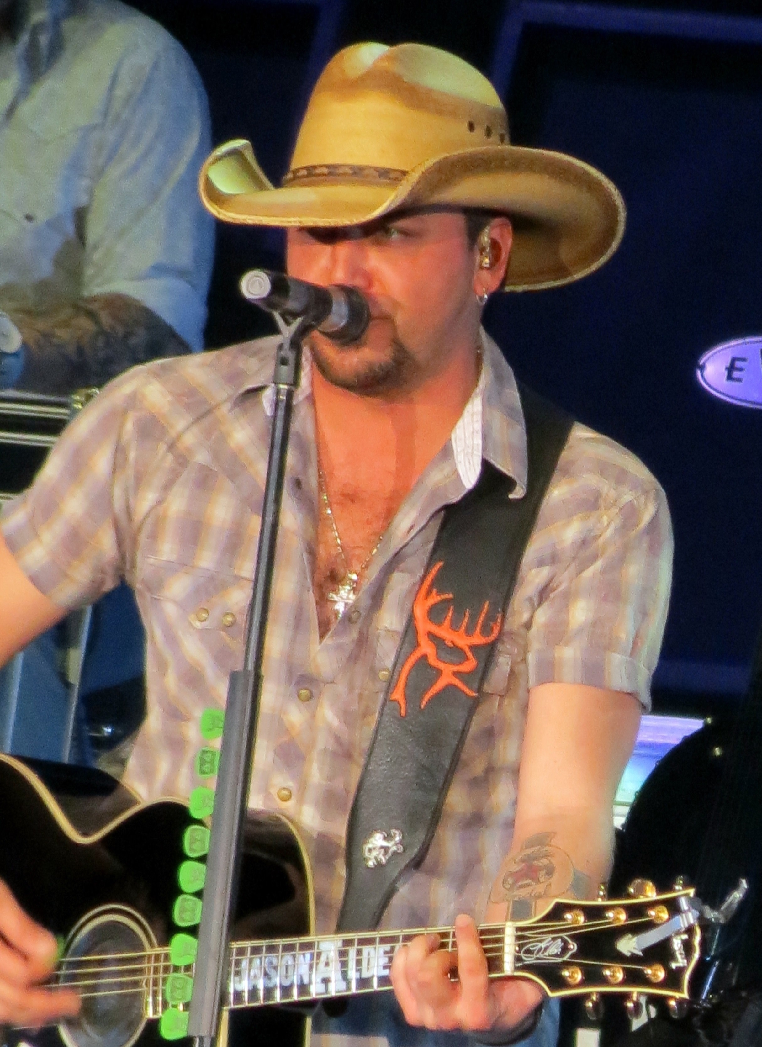 Jason Aldean in concert - Night Train Tour 2014